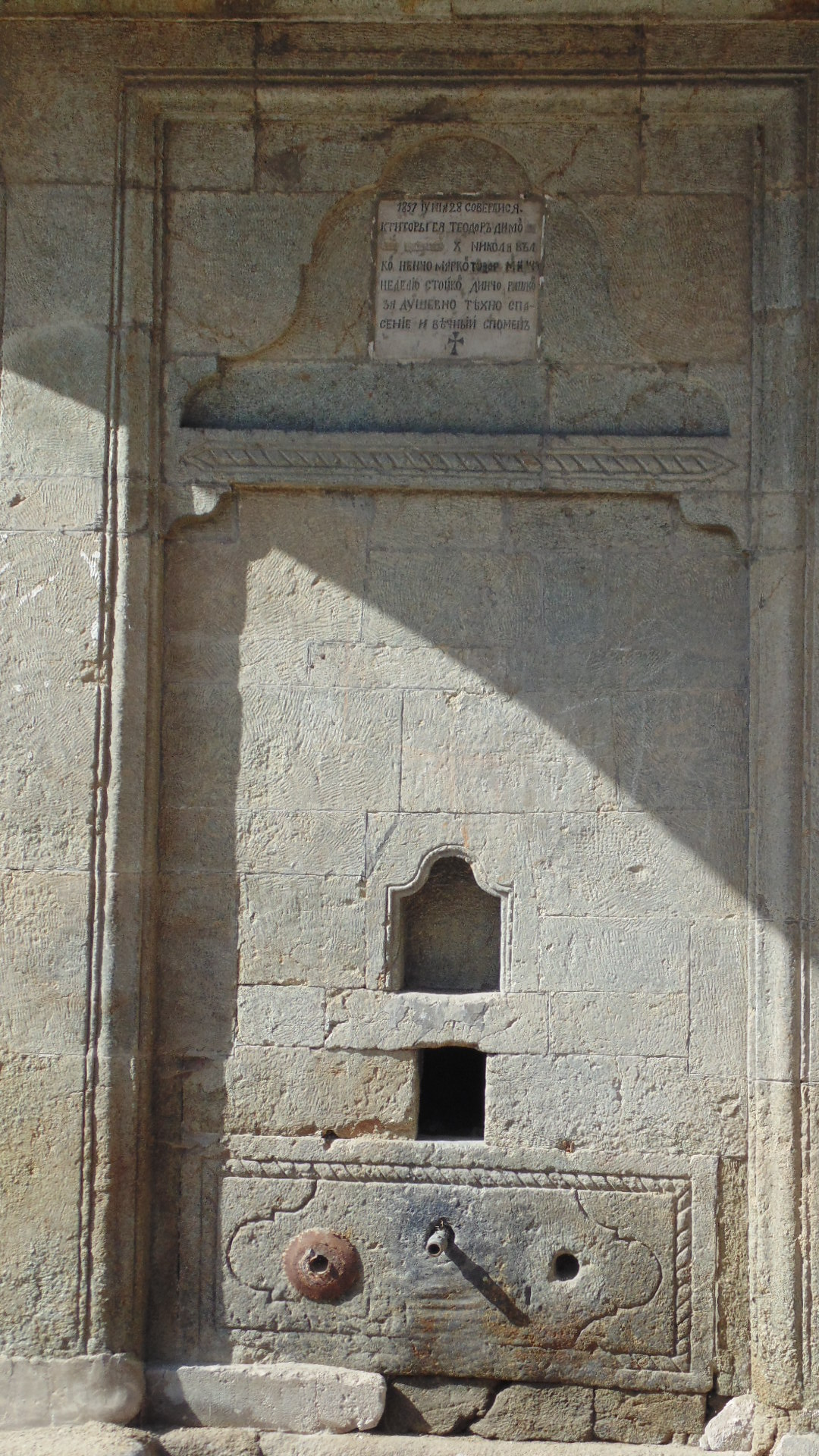 Koprivshtitsa fountain